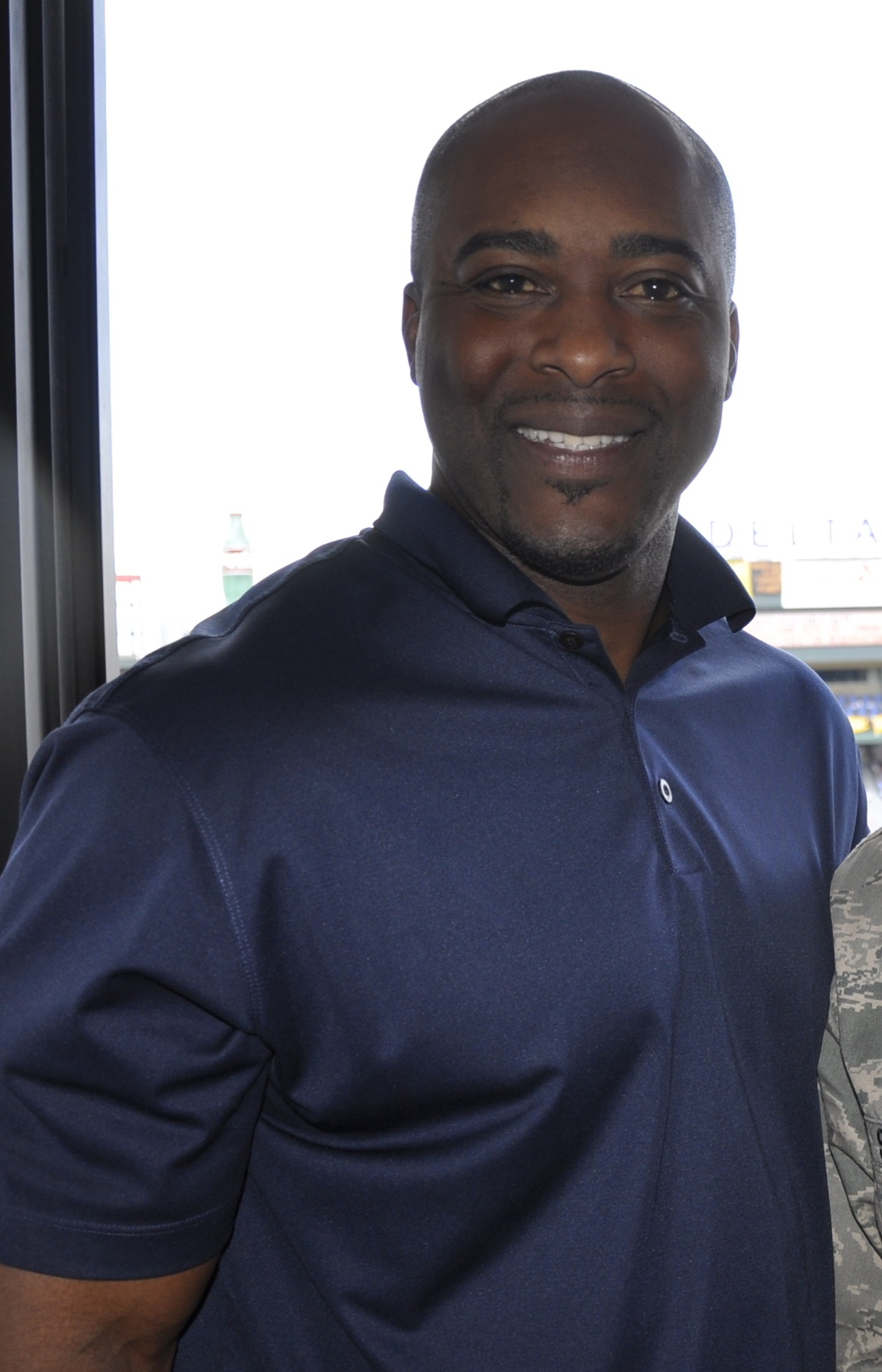 former Atlanta Brave Ron Gant Date Taken:05.28.2012 Location:ATLANTA, GA, US Read more